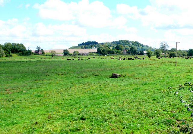 Watermeadows , Avon farm